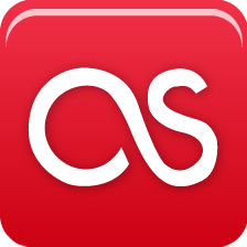 Similar to the Last.fm(™) favicon, though not under copyright because: fonts cannot be copyrighted simple geometric shapes cannot be copyrighted